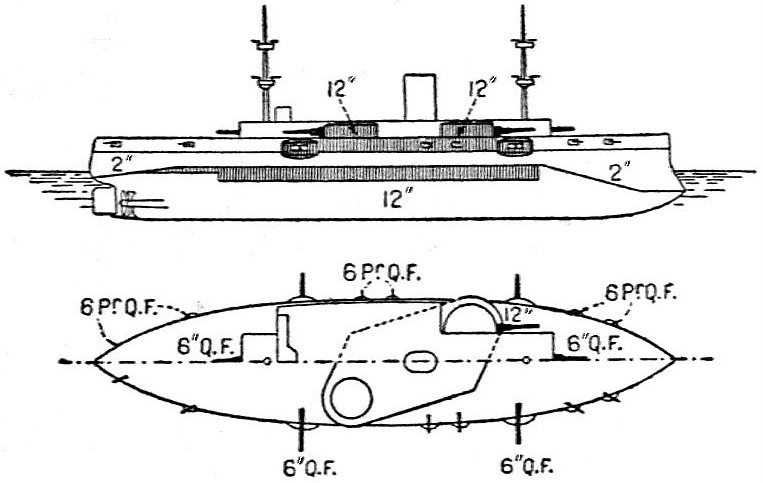 U. S. S. TEXAS, 1889.